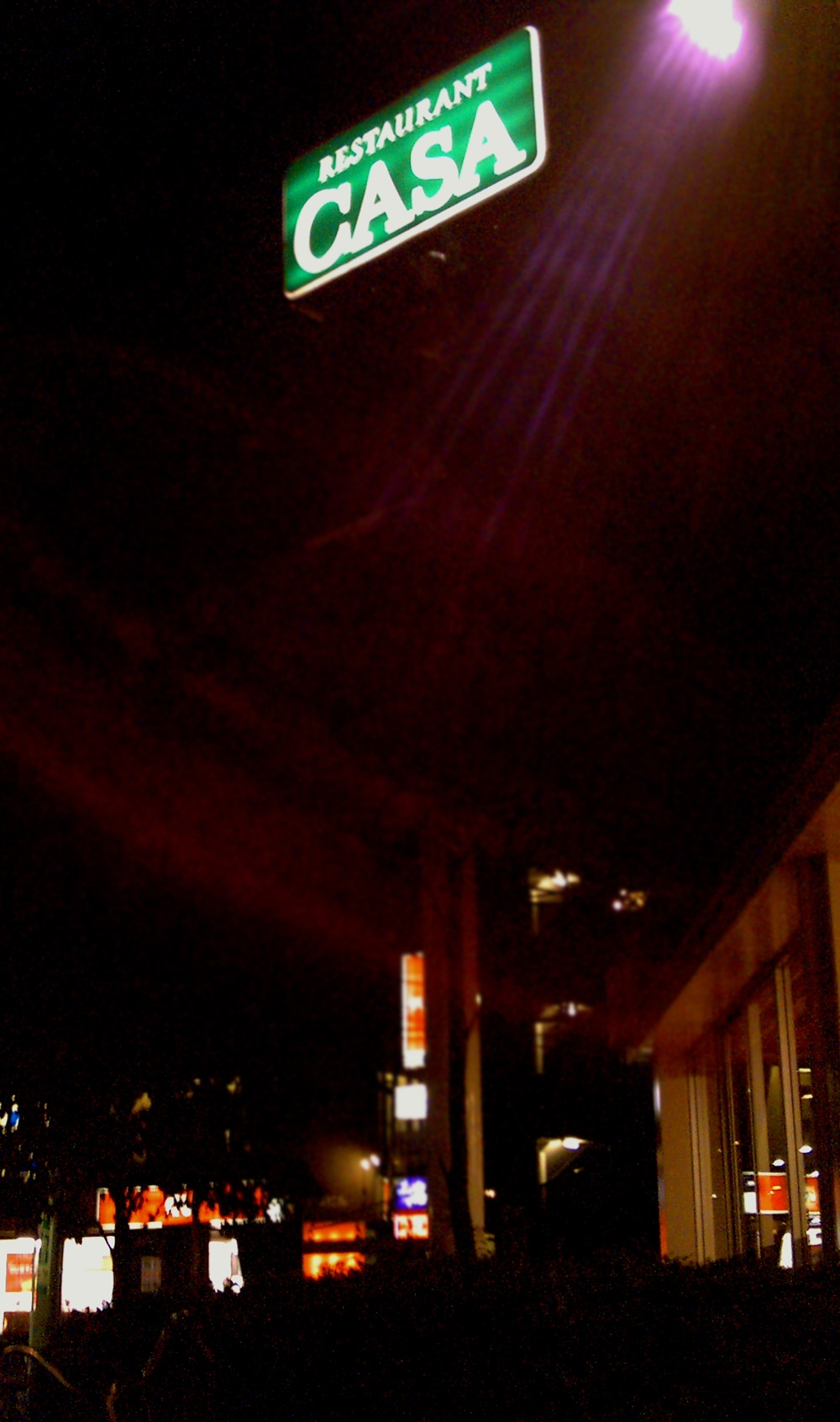 CASA Restaurant_en:Oume-shiOume-city CASA